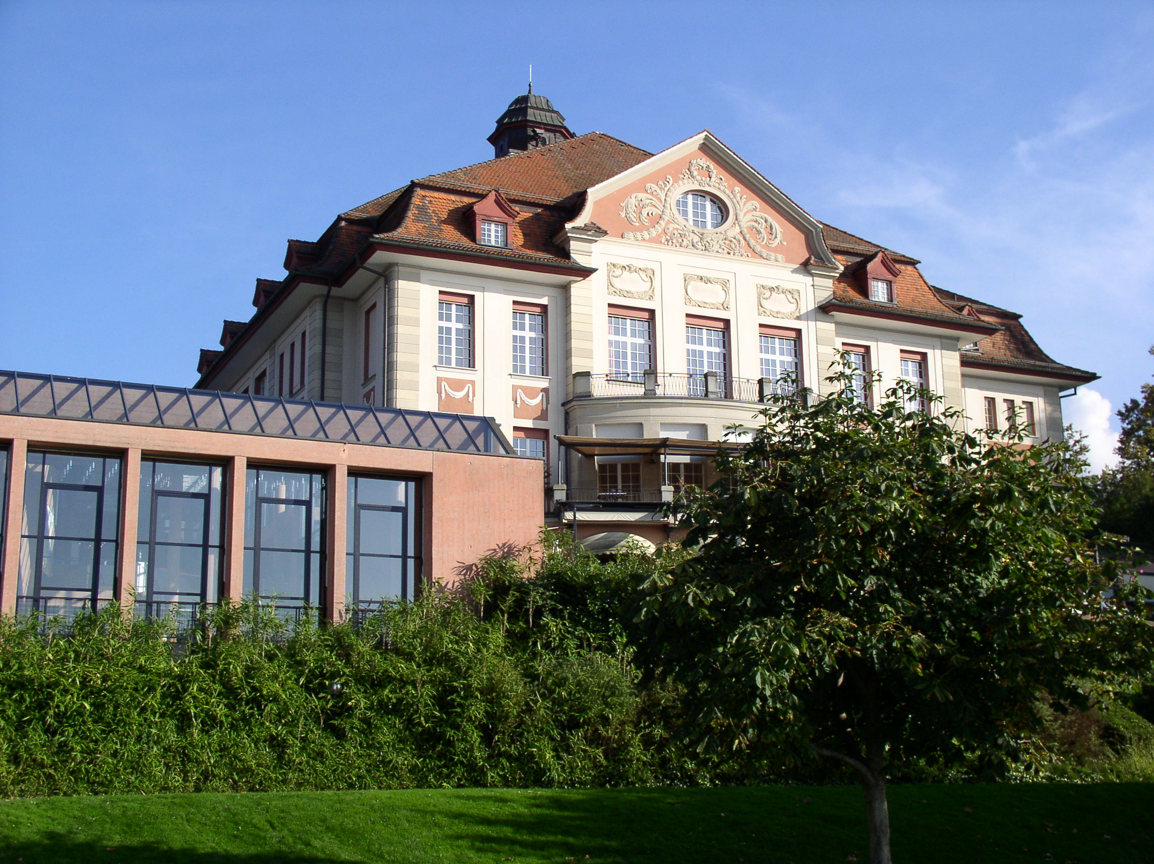 Description: Rückseite des Theater Casino Zug Source: photo taken by me, October 2005 Photographer: Baikonur